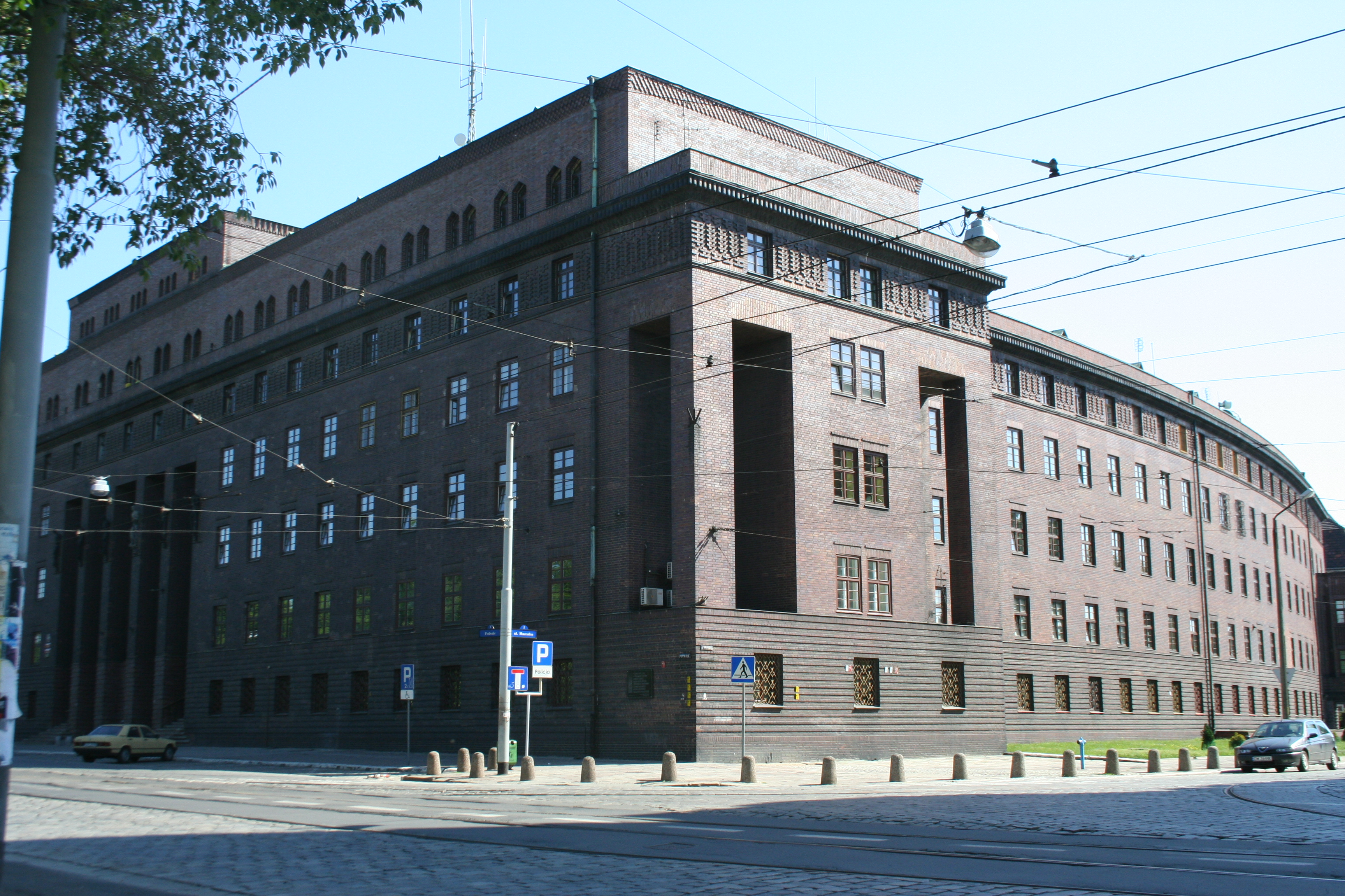 Wroclaw, Police Station.